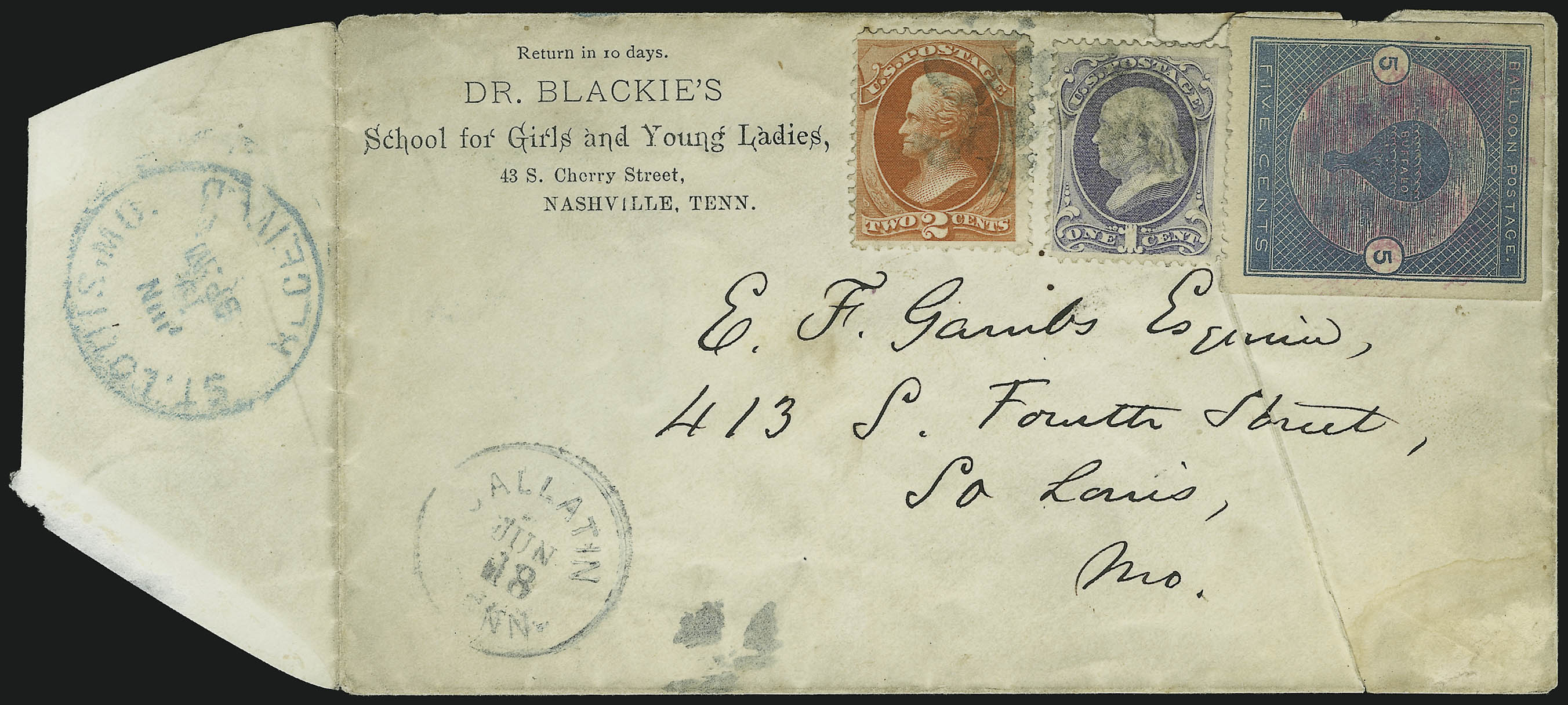 Cover flown on June 18, 1877 "Buffalo" balloon flight from Nashville to Gallatin, Tennessee. One of three covers recorded. 5-cent Buffalo balloon airmail label affixed with additional 3-cents of postage stamps to pay for delivery to final destination; St. Louis MO. Hammer price realised was US $415,000.